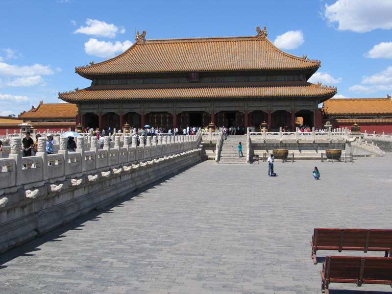 The Forbidden City in Beijing